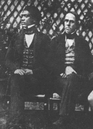 Timothy Haʻalilio (1808–1844) (left) and William Richards (1793–1847) on the first diplomatic mission from the Kingdom of Hawaii to the USA and Europe to negotiate a treaty guaranteeing independence. Haʻalilio died on the return voyage.